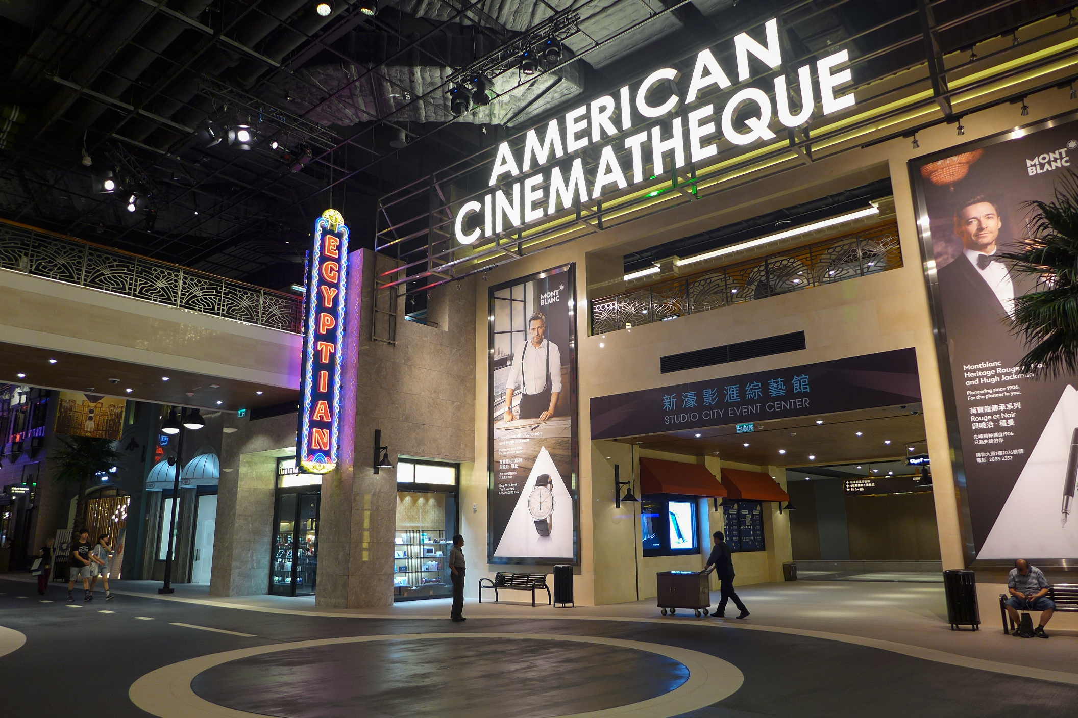 Studio City Macau Event Center